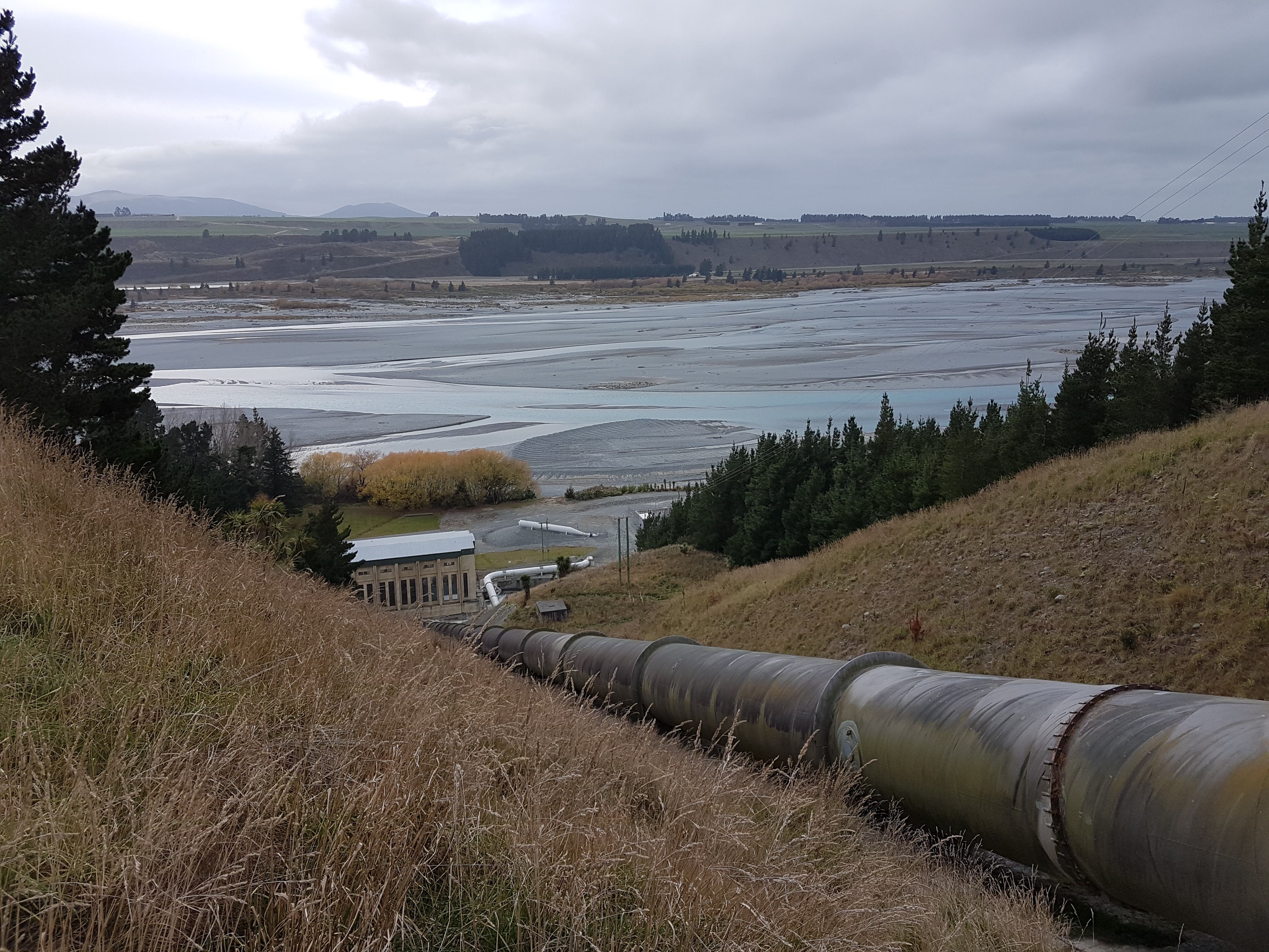 This image forms part of a series showing aspects of the canal and associated structures that were constructed to divert water from the Rangitata river for irrigation and power generation purposes. The canal terminates at the Highbank power station which releases the water into the Rakaia river.